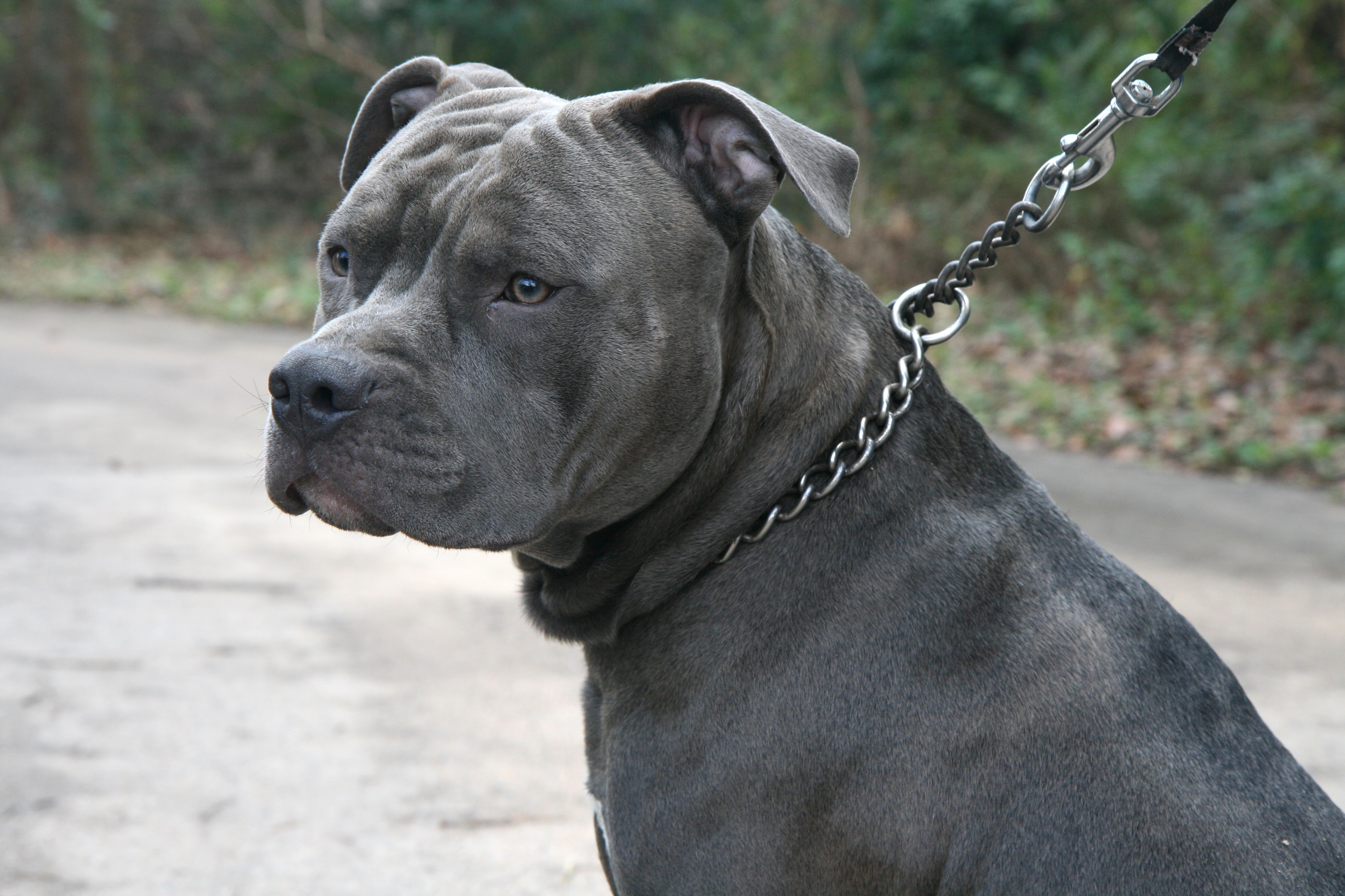 A friendly "pit bull" encountered on the Ellerbe Creek Trail in Durham, North Carolina. The leash is attached to the live ring of the choke chain.